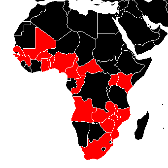 African nations with flags using Pan-African colors, shown in red